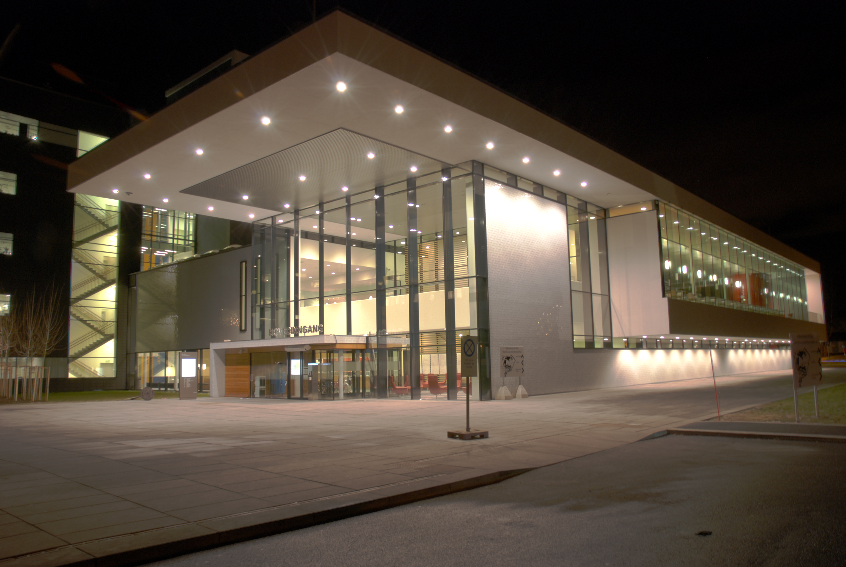 The main entrace of the Akershus univeritetssykehus (Ahus).